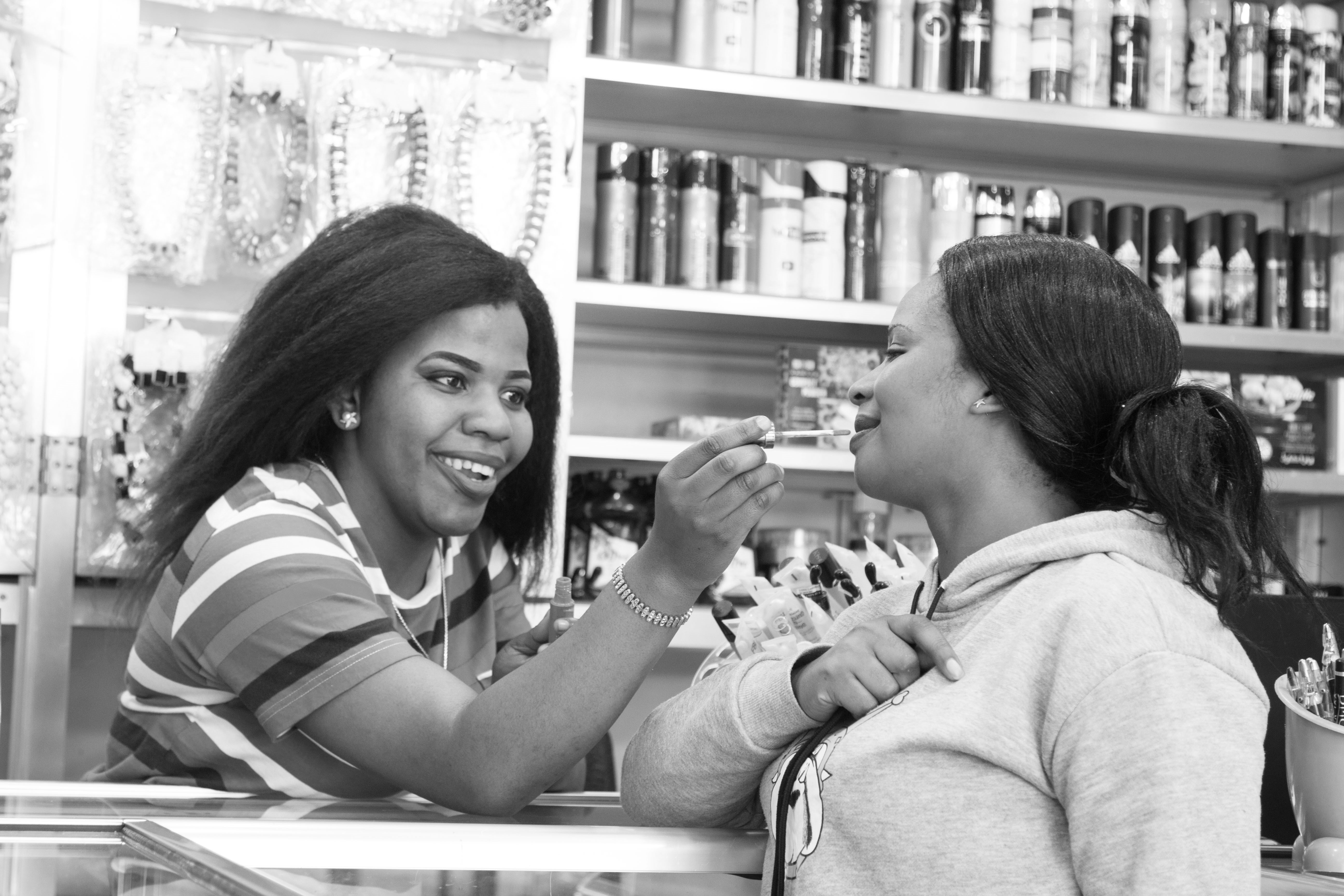 This is an image of "African people at work" from Tanzania